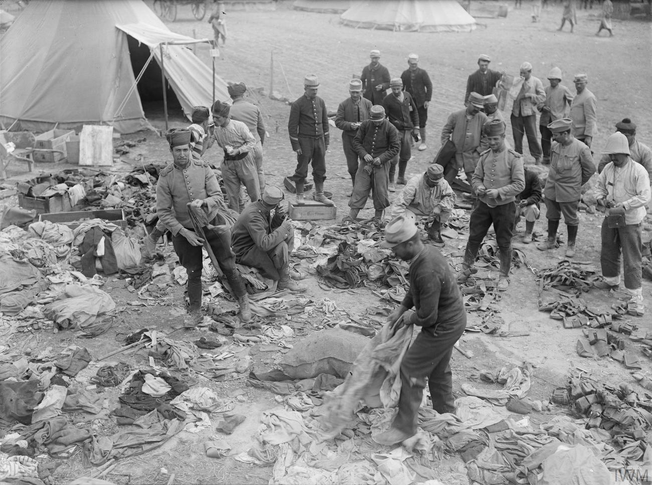 IWM caption : THE GALLIPOLI CAMPAIGN, APRIL 1915-JANUARY 1916. Men of the French Foreign Legion and French Zouaves seen in camp at Sedd el Bahr, sorting out salvaged kit and equipment.